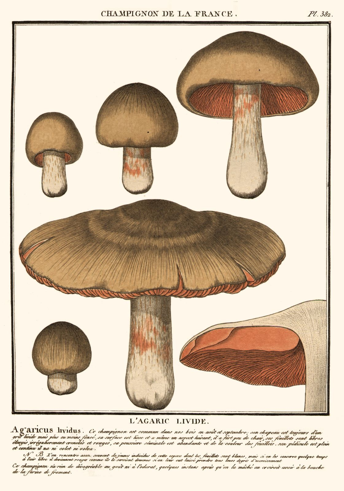 Illustration of the mushroom Agaricus lividus Bull., which would later become known as Entoloma sinuatum (Bull.) P.Kumm.